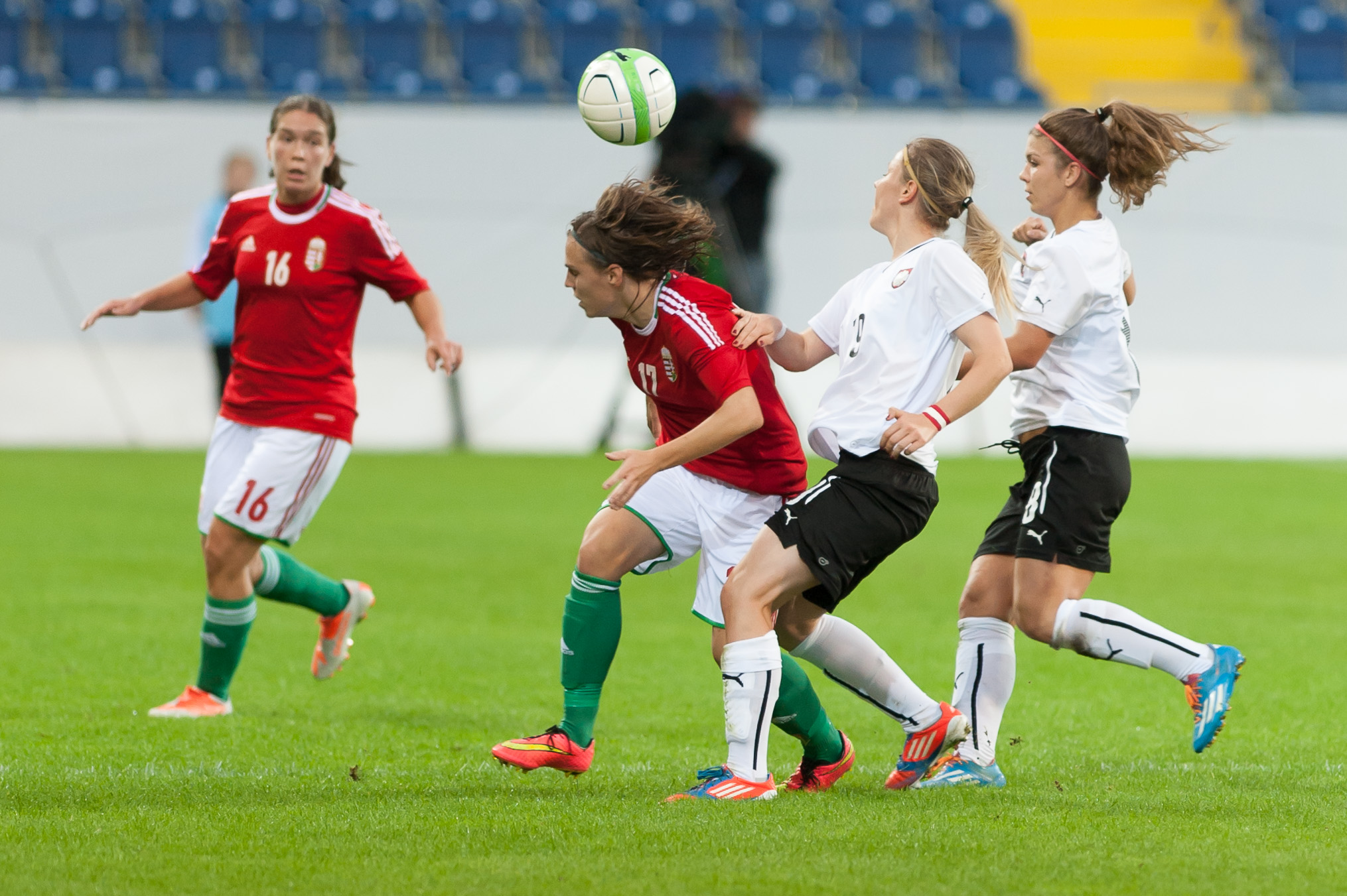 FIFA Women's World Cup 2015: Qualifying Round St. Pölten, 13.09.2014 Dóra Zeller